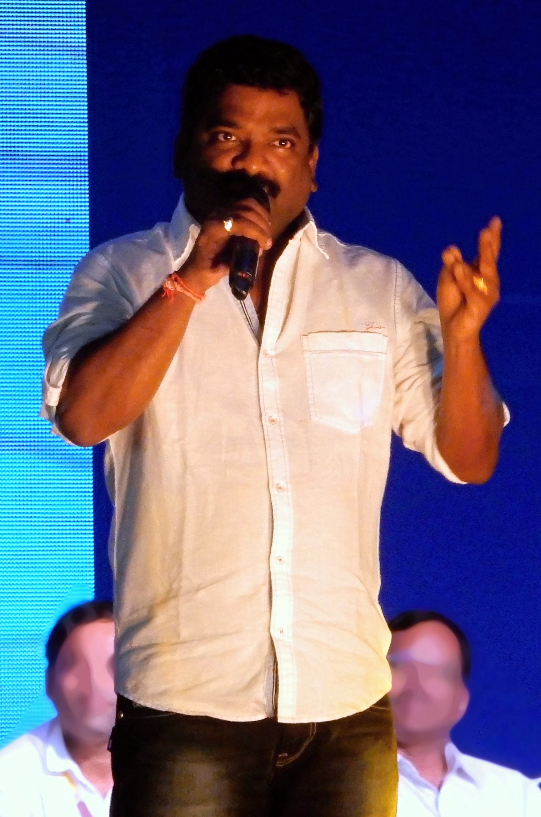 Indian lyricist Chandrabose at KL University in February 2015